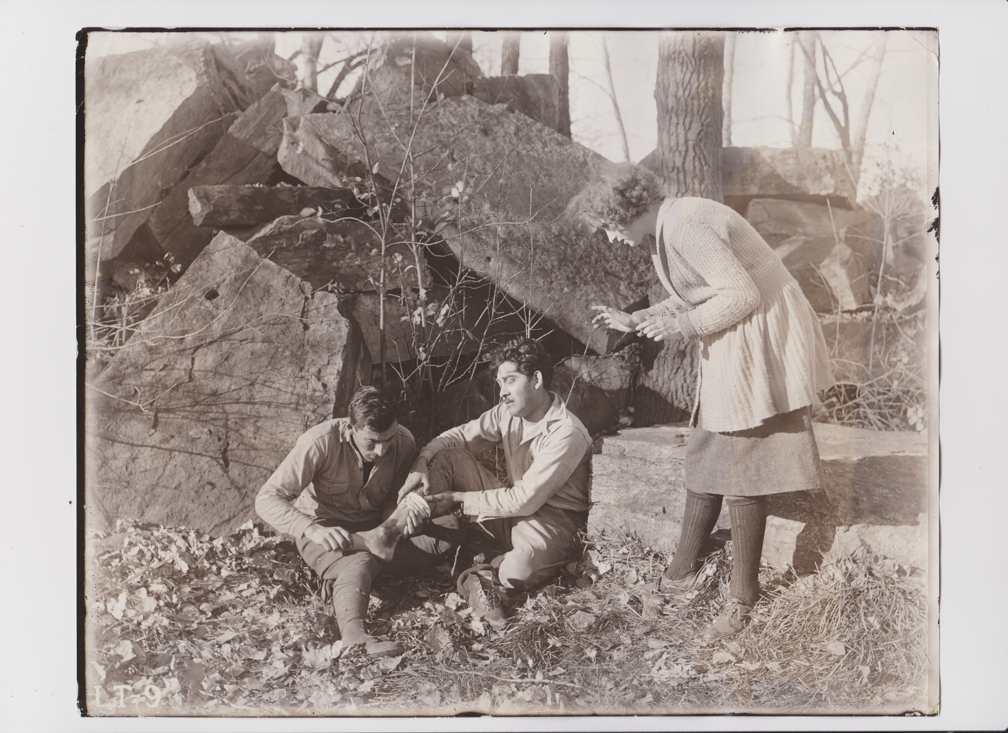 Actor Fred Beauvais (character Pierre Benoit) releasing villain as actress Christina McNulty (the movie's heroine Margaret Allen) observes, silent film The Lonely Trail (1922)